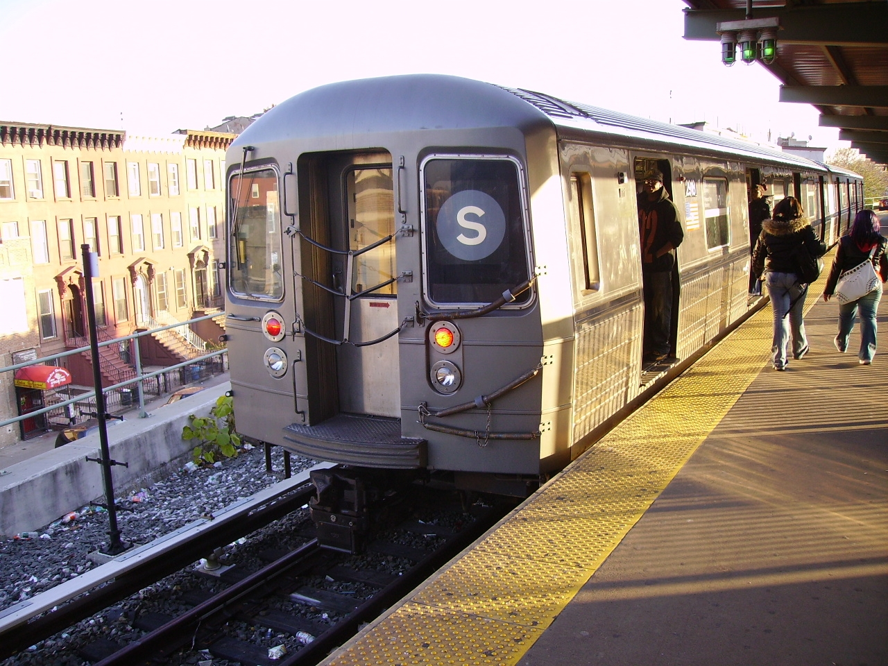 An S shuttle train composed of two R68 units is ready for departure from Franklin Avenue on the Franklin Shuttle.The R68 were originally built as singles. They were all arranged in four-car units in 1998 except those nine units that are assigned to the Franklin Shuttle, which only sees two-car trains.